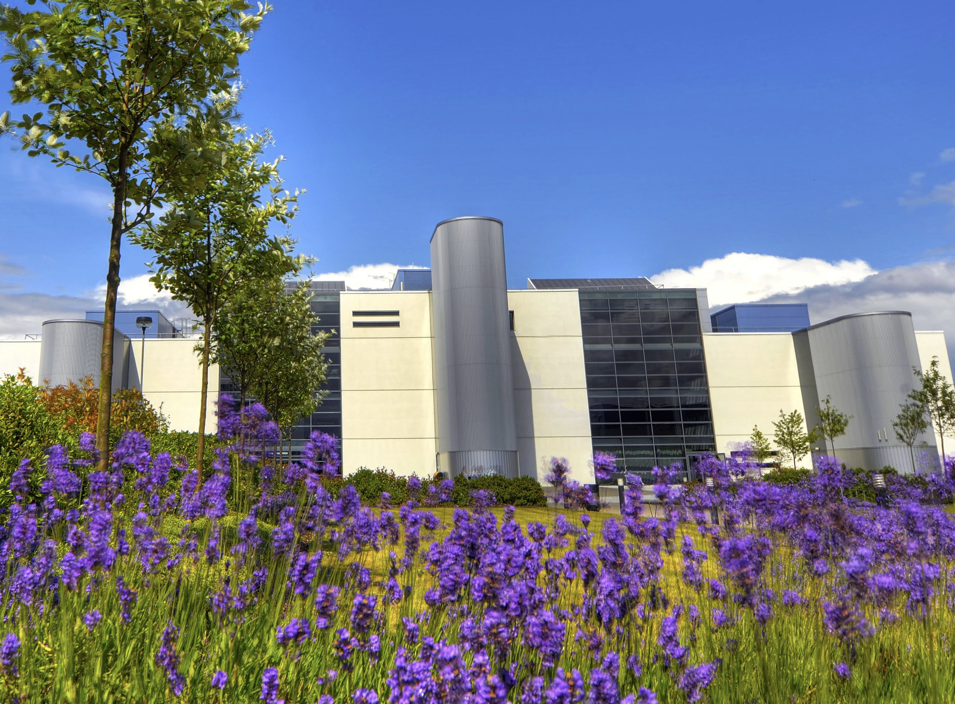 Main building through flowers